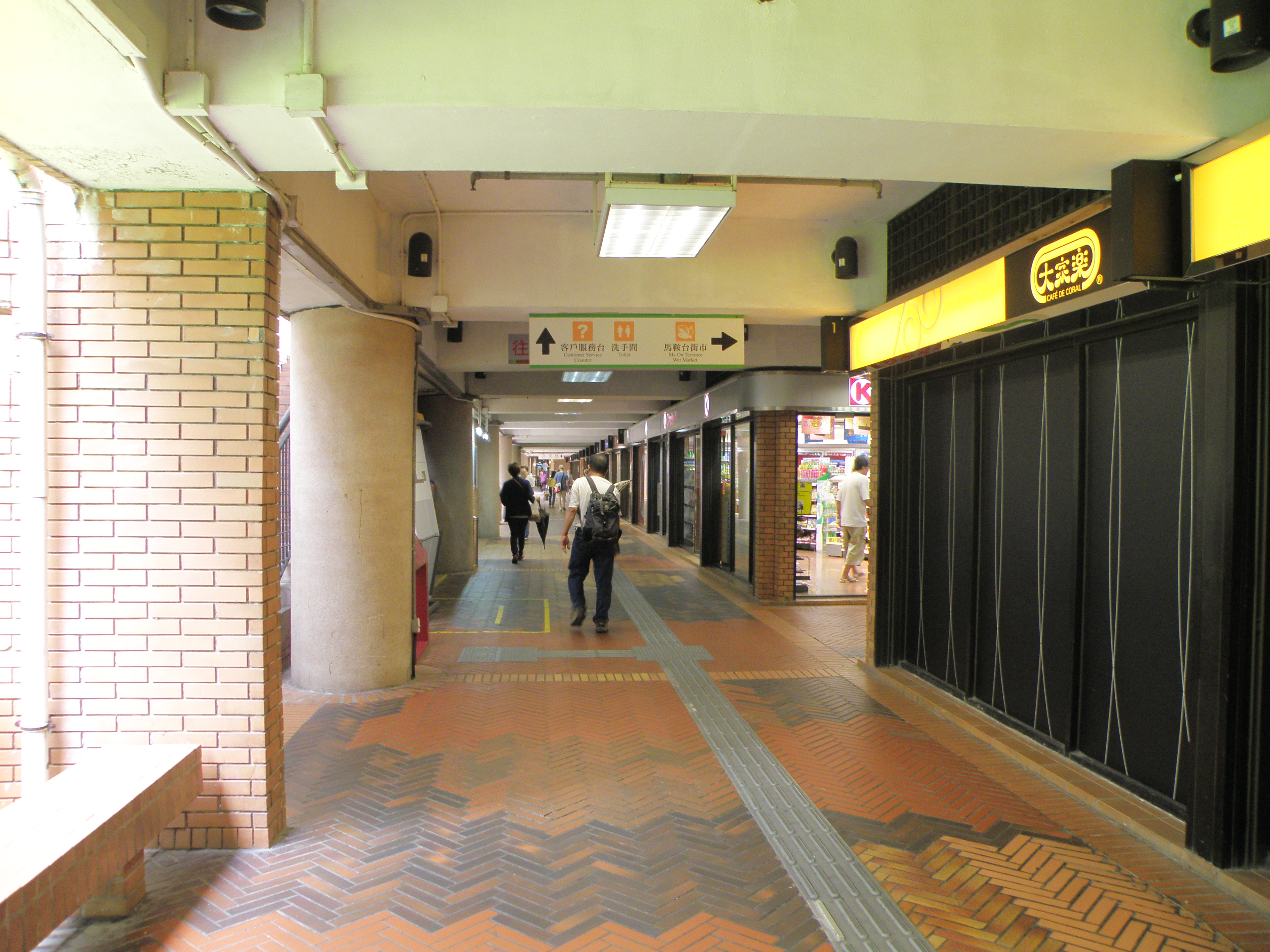 Kam Ying Shopping Centre in Ma On Shan, Hong Kong.